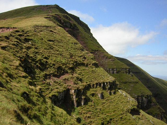 Summit of Pen-y-Fan Summit of Pen-y-Fan from the ridge route to Cribyn.